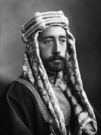 Faisal I, king of Iraq from 1921 to 1933